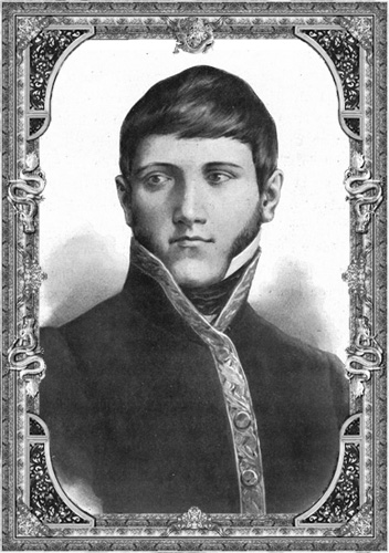 Self-portrait of Francisco Xavier Mina, Lithograph (1870-1907).